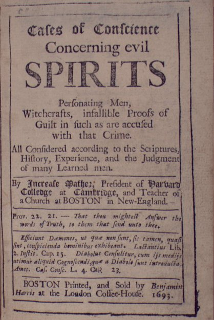 Title page of first edition of Cases of Conscience Concerning Evil Spirits" by Increase Mather